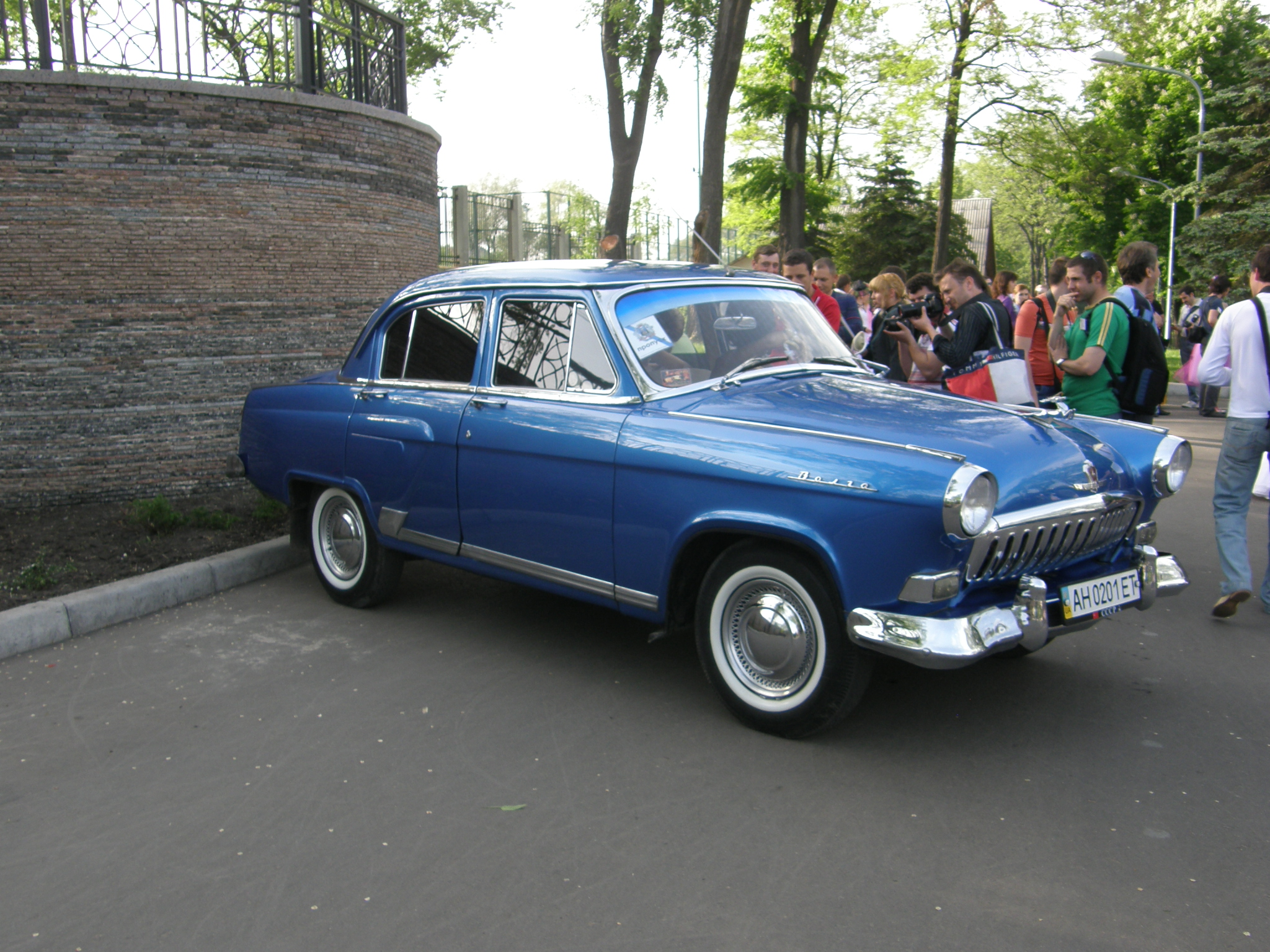 Brides parade in Donetsk, 2010. GAZ M-21 Volga of 1958-62 (inscriptions on fenders are from later cars, wheels are custom)